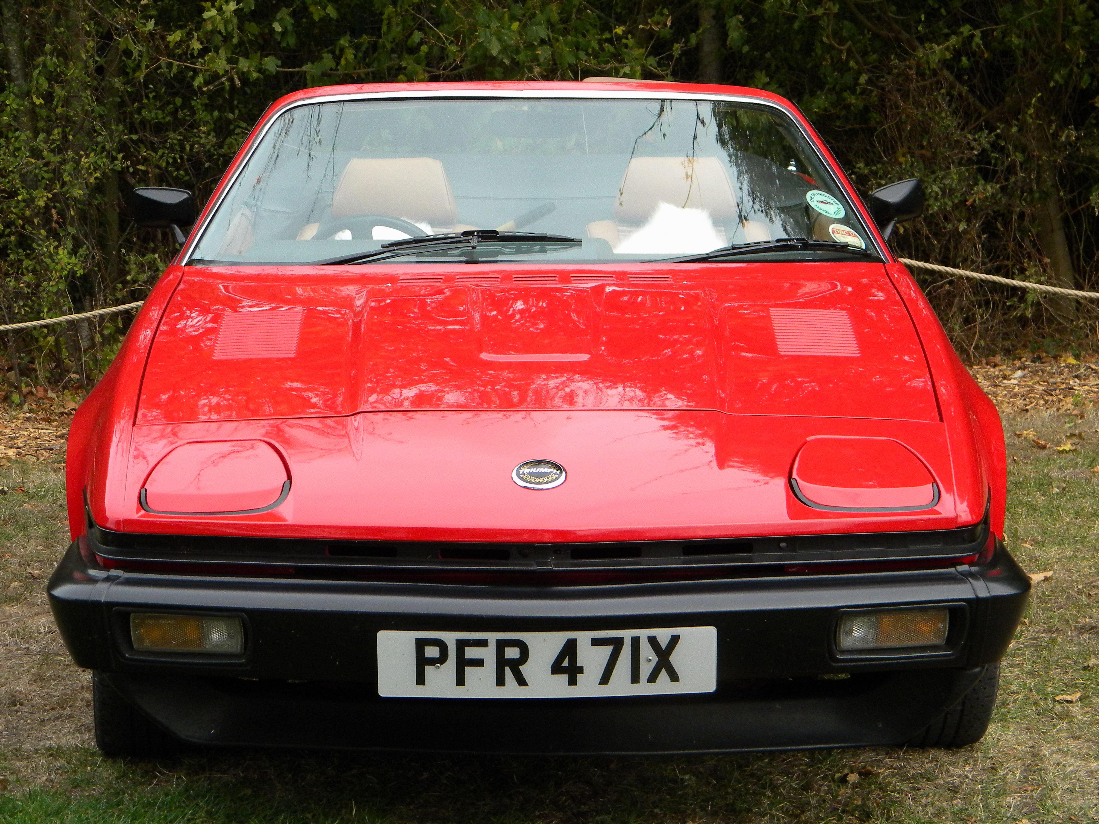 A 1982 Triumph TR7 2 litre seen at Milton Keynes Museum